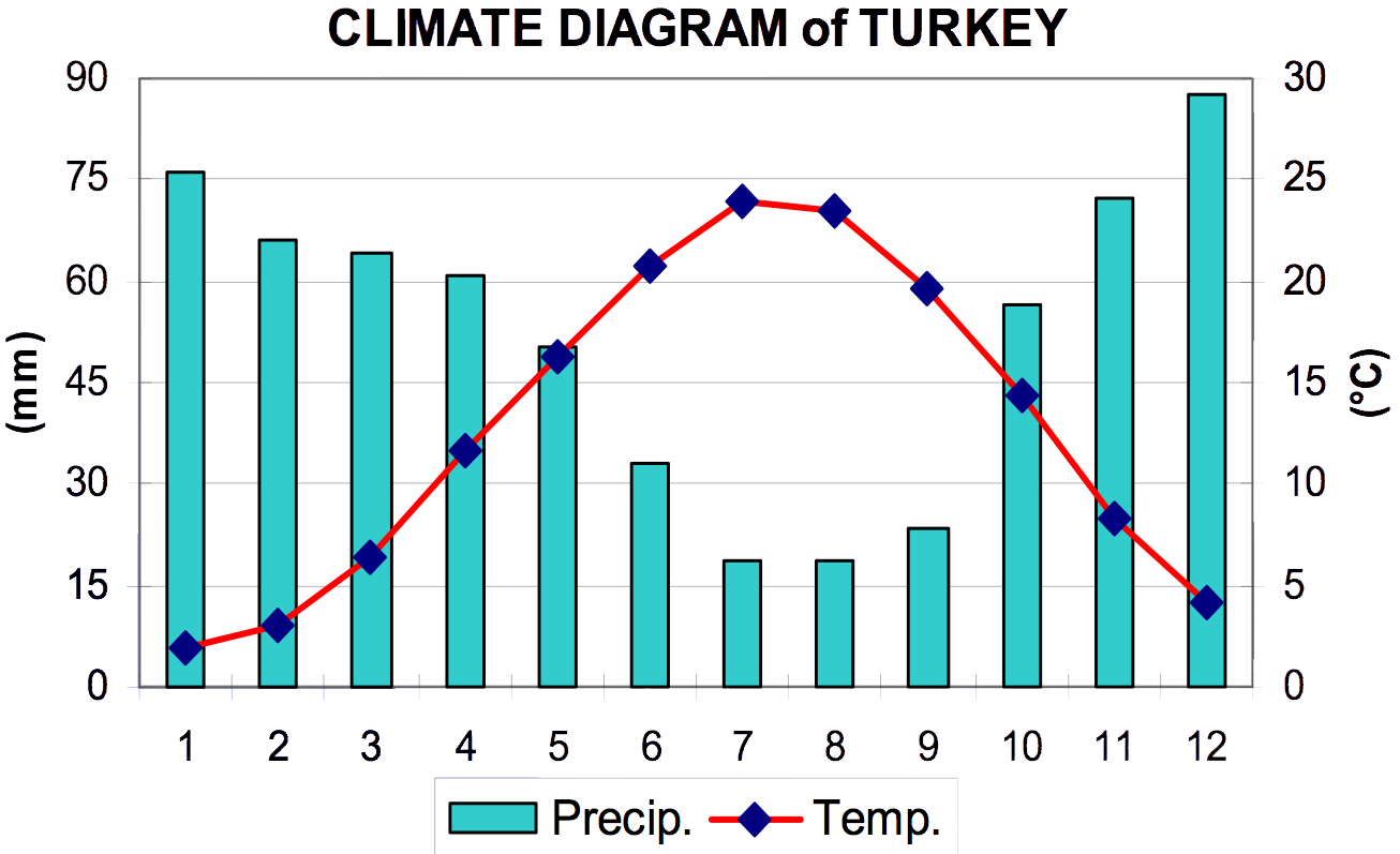 Climate diagram of Turkey (Sensoy, S. et al, 2008)